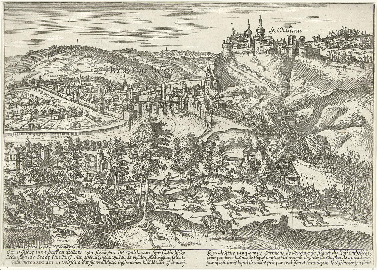 Sieg of Hoei